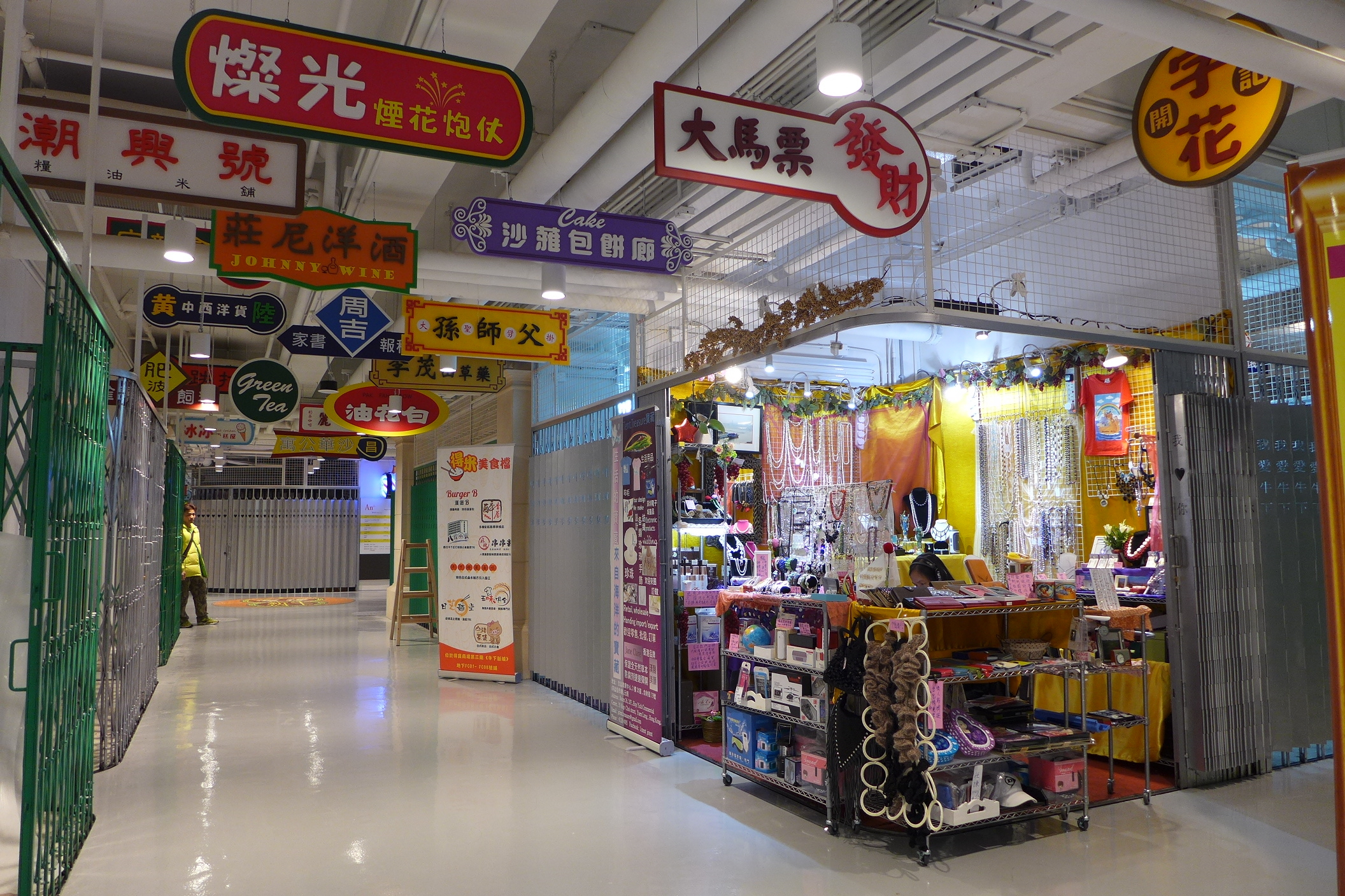 TBG Mall GF shops